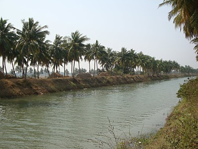 The canal passing parallel to road in nagullanka village by Kotikalapudi.